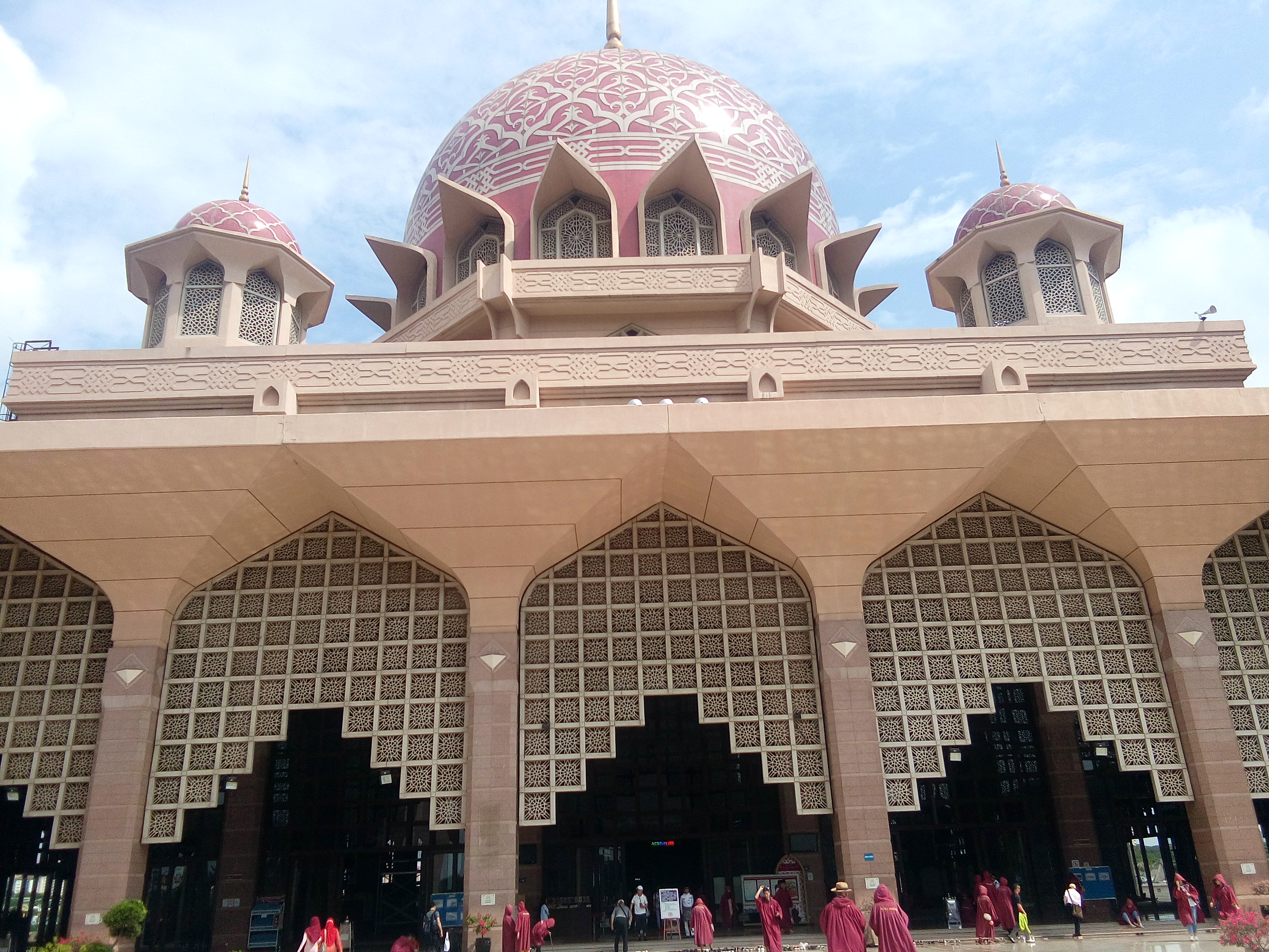 Putra Mosque in Putrajaya